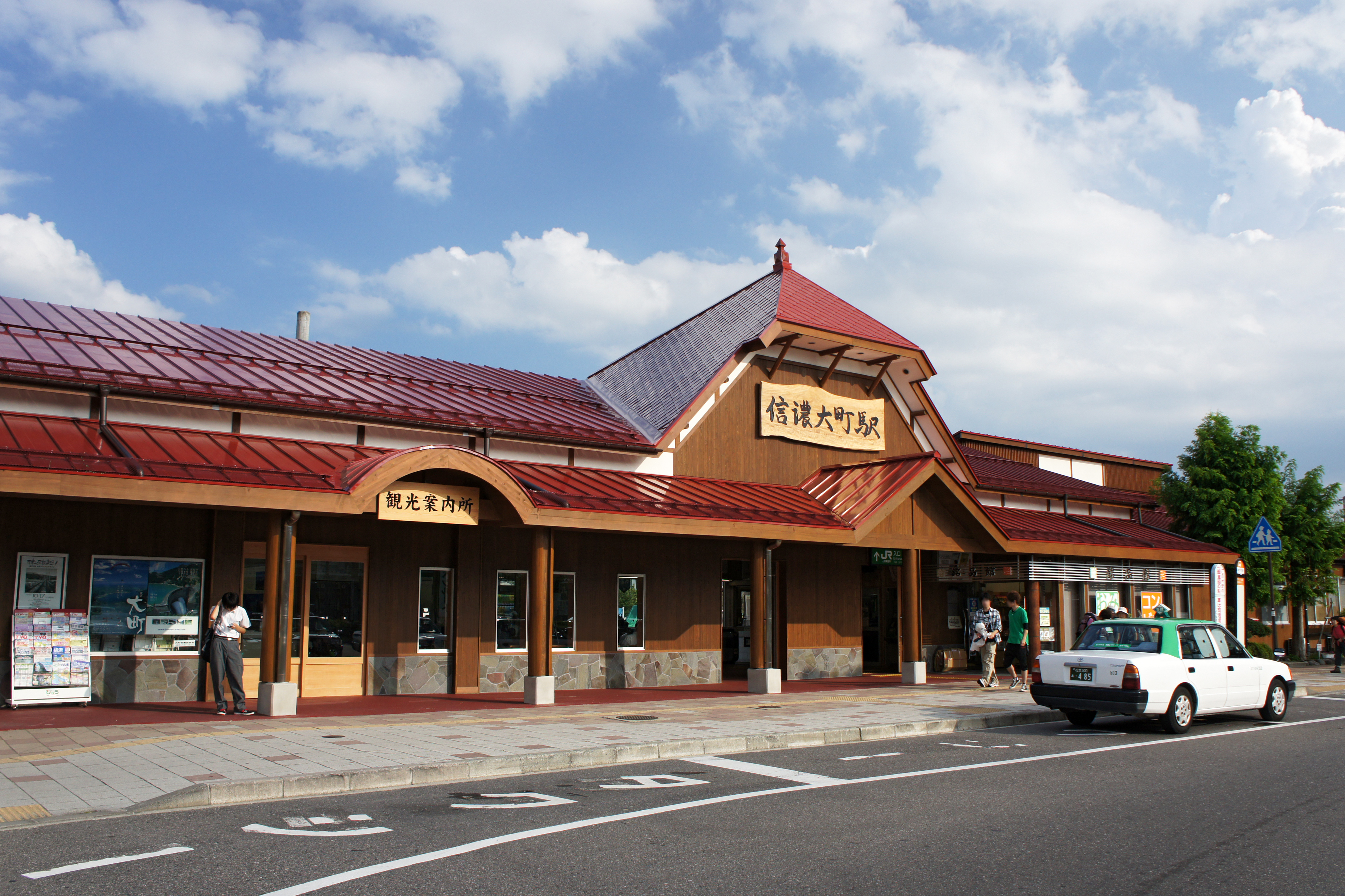 Shinano-Ōmachi Station in Ōmachi, Nagano prefecture, Japan.